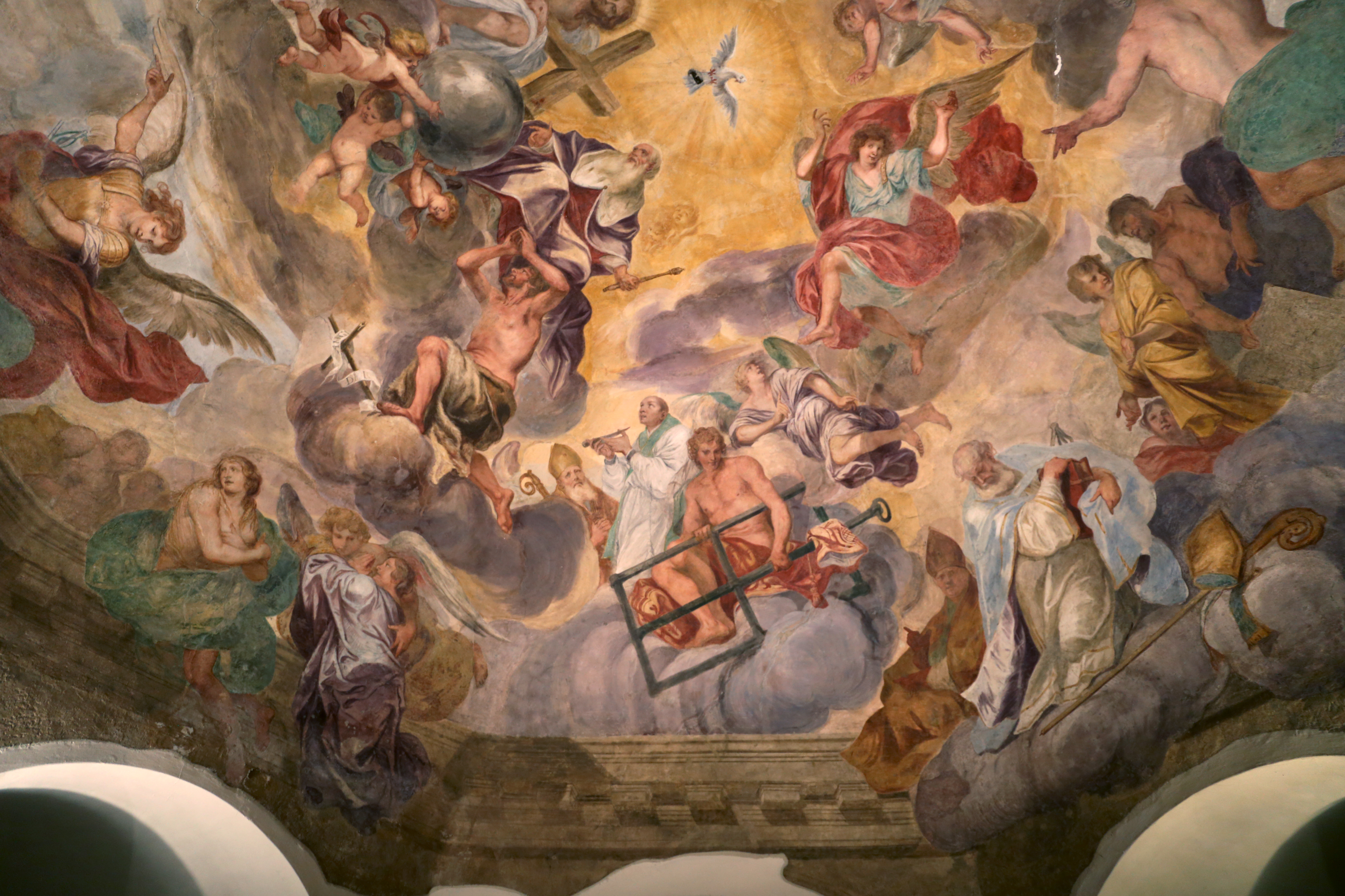 San Lorenzo (Milan)